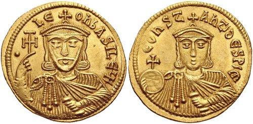 Leo V the Armenian, with Constantine. 813-820. AV Solidus (21mm, 4.47 g, 6h). Constantinople mint. LЄ On ЬASILЄЧ’, crowned facing bust of Leo, holding cross potent and akakia / COnSτ Anτ’ ∂ЄSP’ Є, crowned facing bust of Constantine, holding globus cruciger and akakia. DOC 2a; SB 1627. EF.